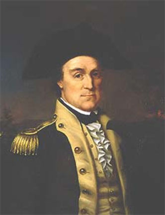 Georgia Revolutionary War hero Elijah Clarke.